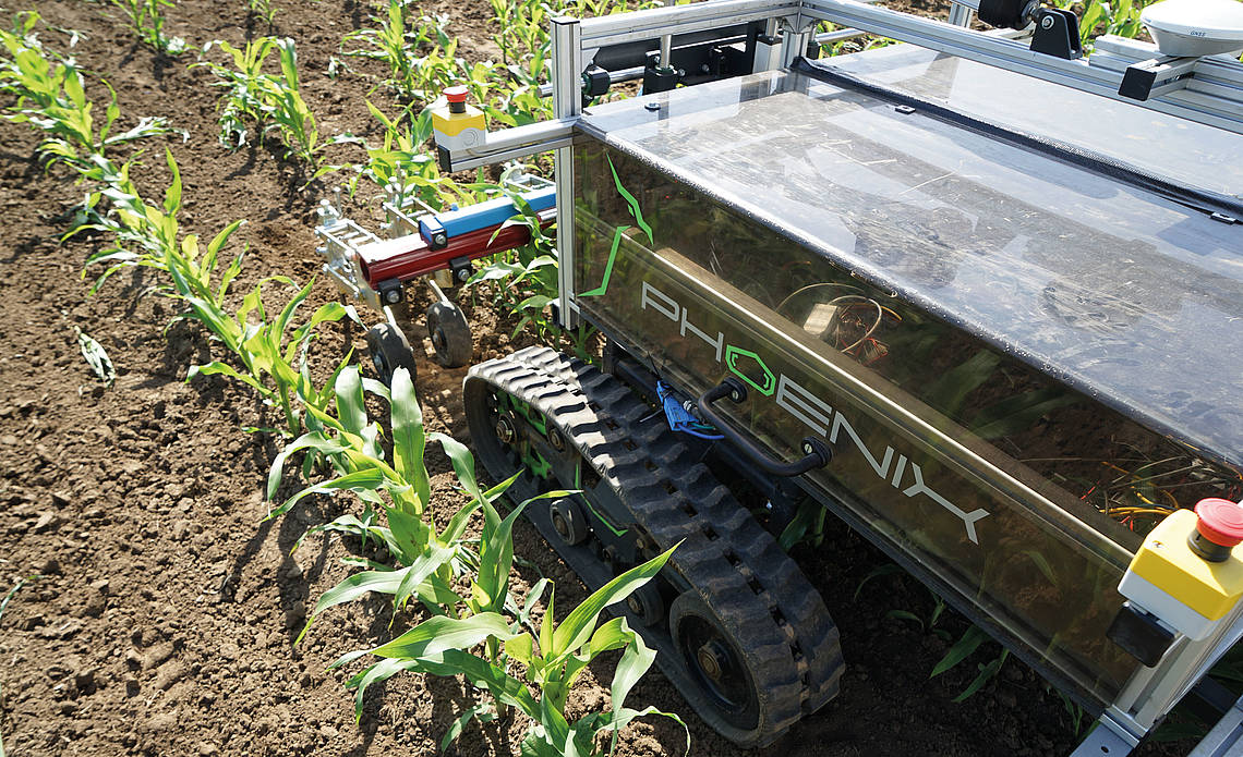 Field robots differ from conventional agricultural machinery and are often specialised in specific field operations.